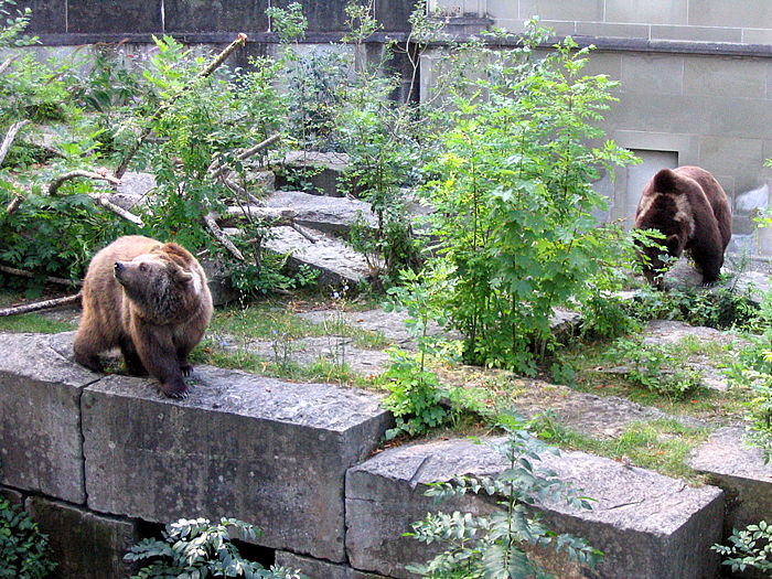 Bears in the Barengraben (bear pits) in Bern, Switzerland